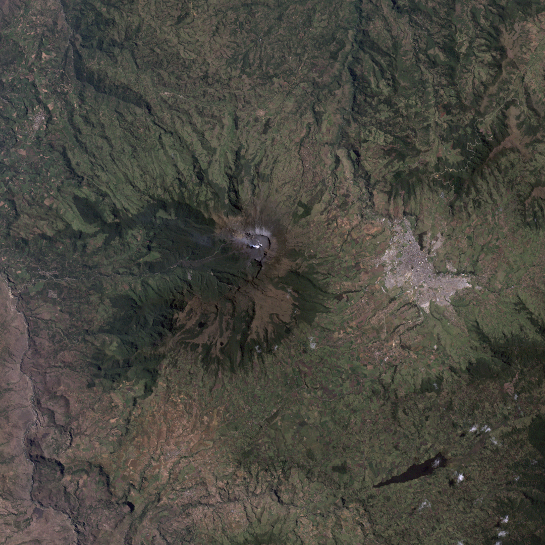 NASA image depicting the Galeras Volcano in Colombia. Public domain work of a UG government agency.